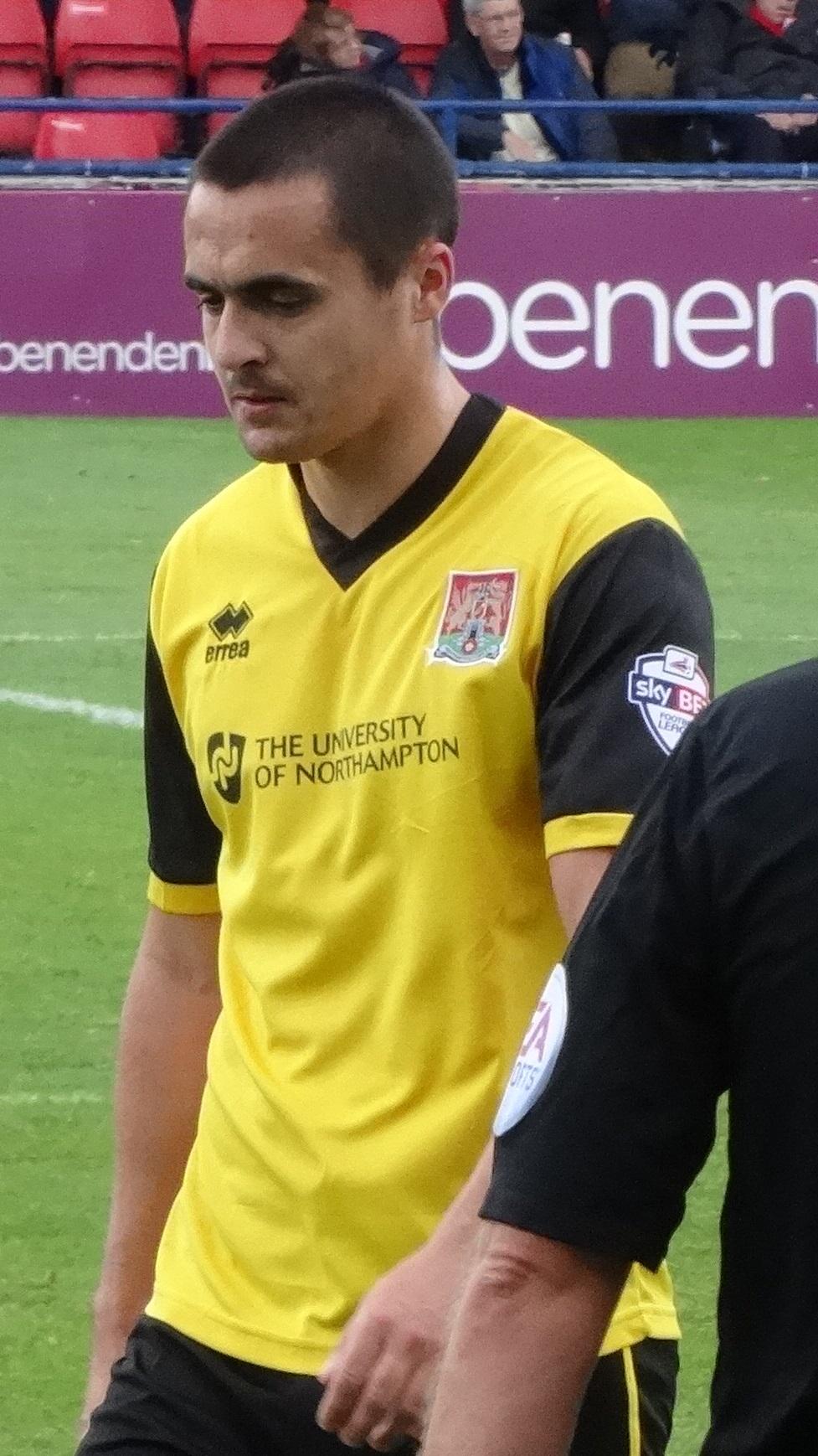 Evan Horwood playing for Northampton Town against York City at Bootham Crescent, York on 16 August 2014